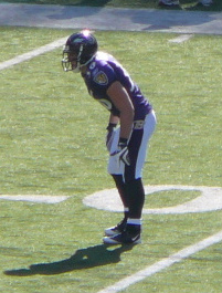 Jim Leonhard at M&T Bank Stadium, Baltimore, Maryland. Baltimore Ravens vs. Oakland Raiders.